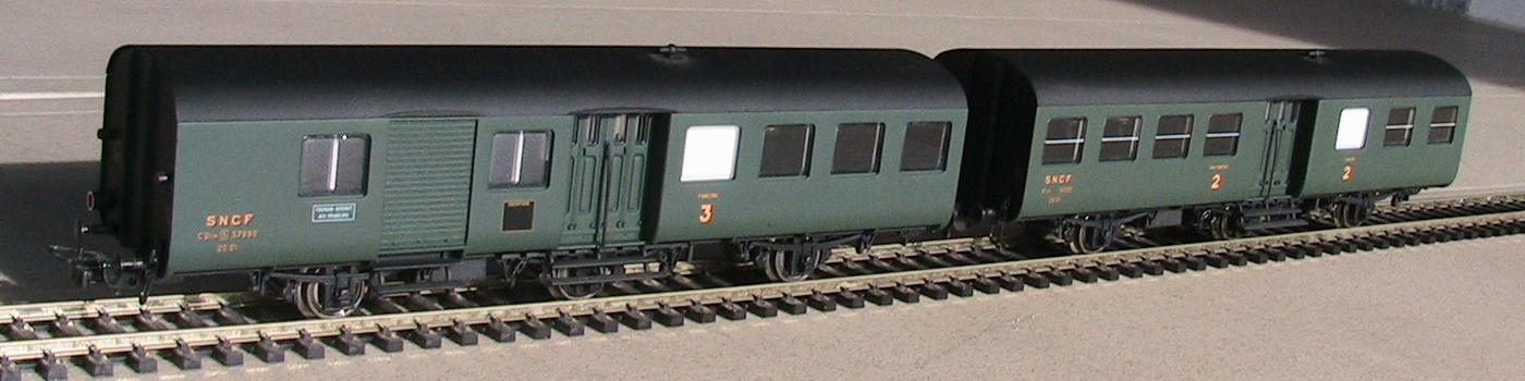 So called "3 pattes" ex PLM cars C4dtm & B7tm. Scale model by LS Models.